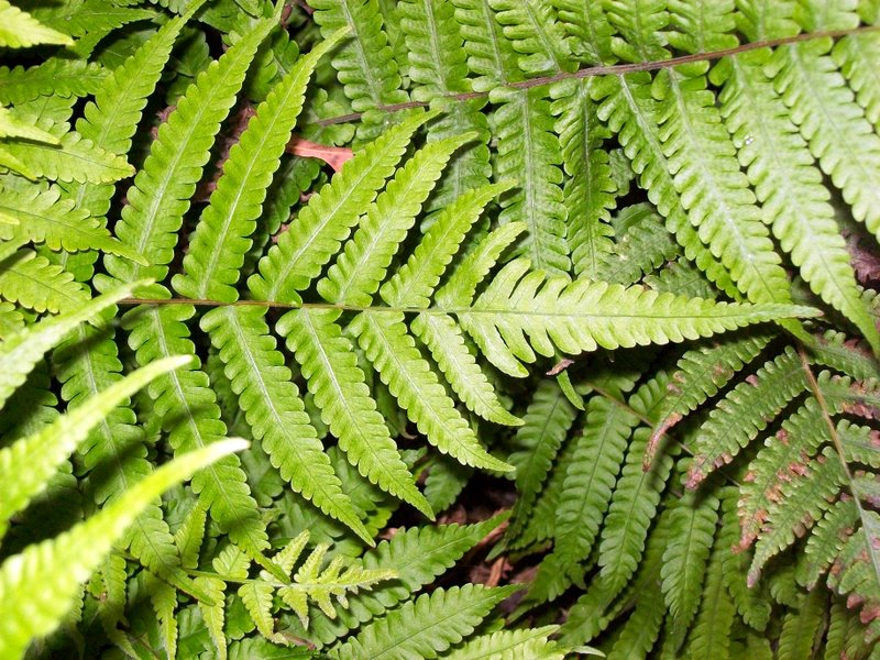 Christella dentata, at Chatswood West